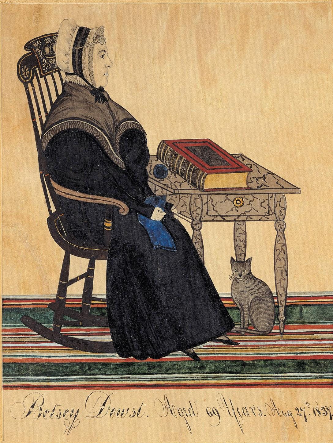 Watercolor portrait by Joseph H. Davis